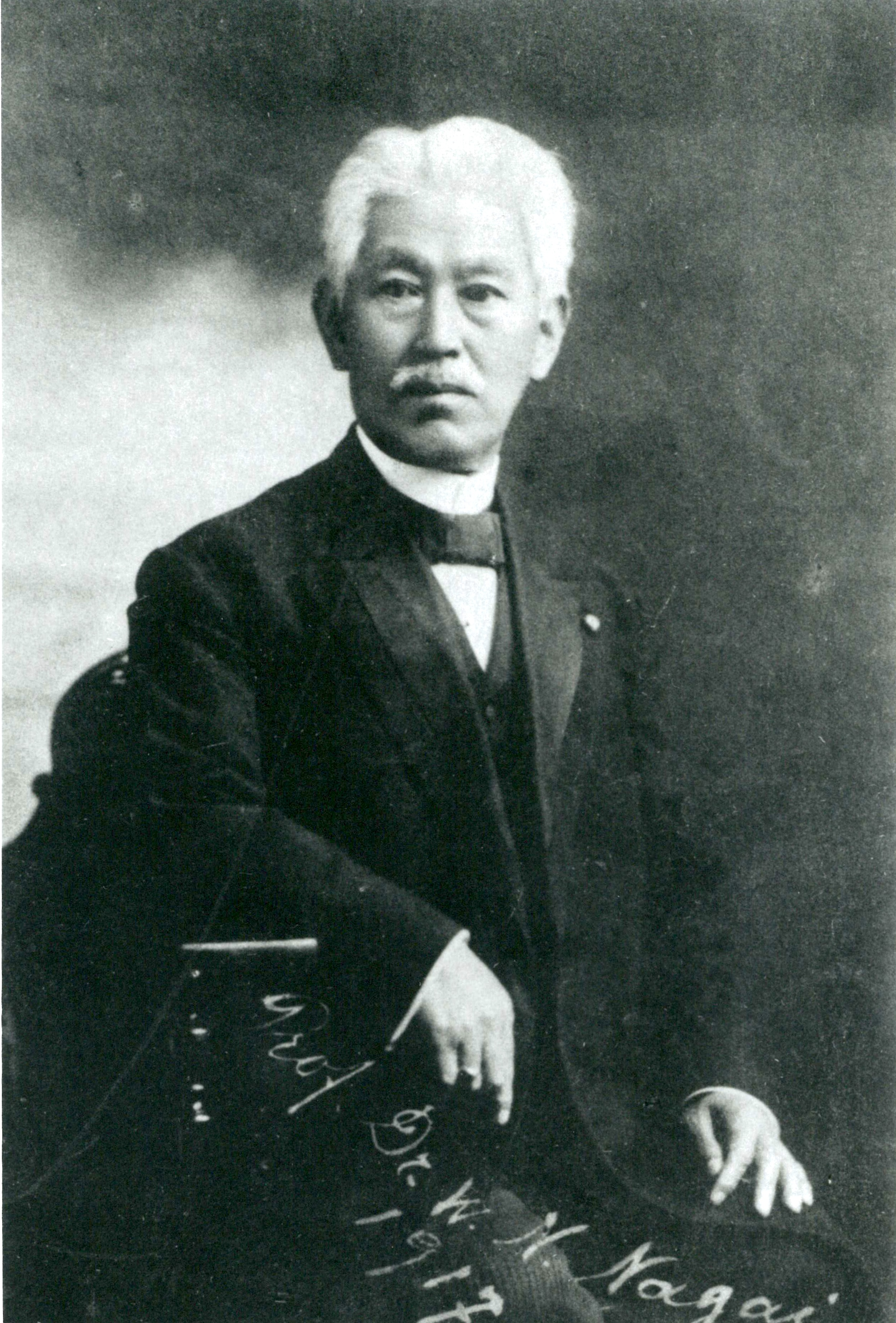 Japanese pharmacologist, Nagai Nagayoshi (1845-1929)